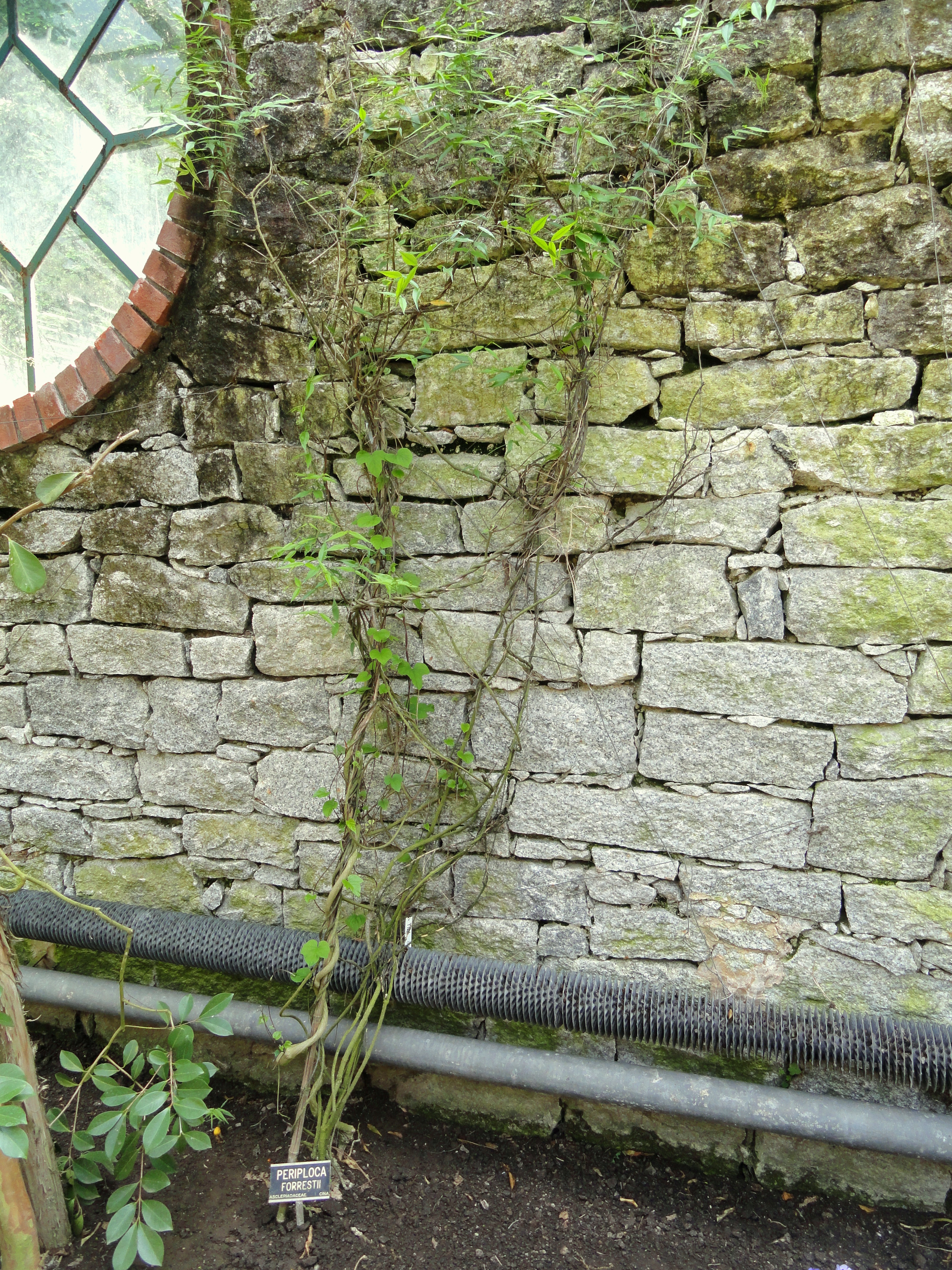 Periploca forrestii. Botanical specimen on the grounds of the Villa Taranto (Verbania), Lake Maggiore, Italy.